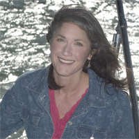 Photograph of Author Karen Mehringer